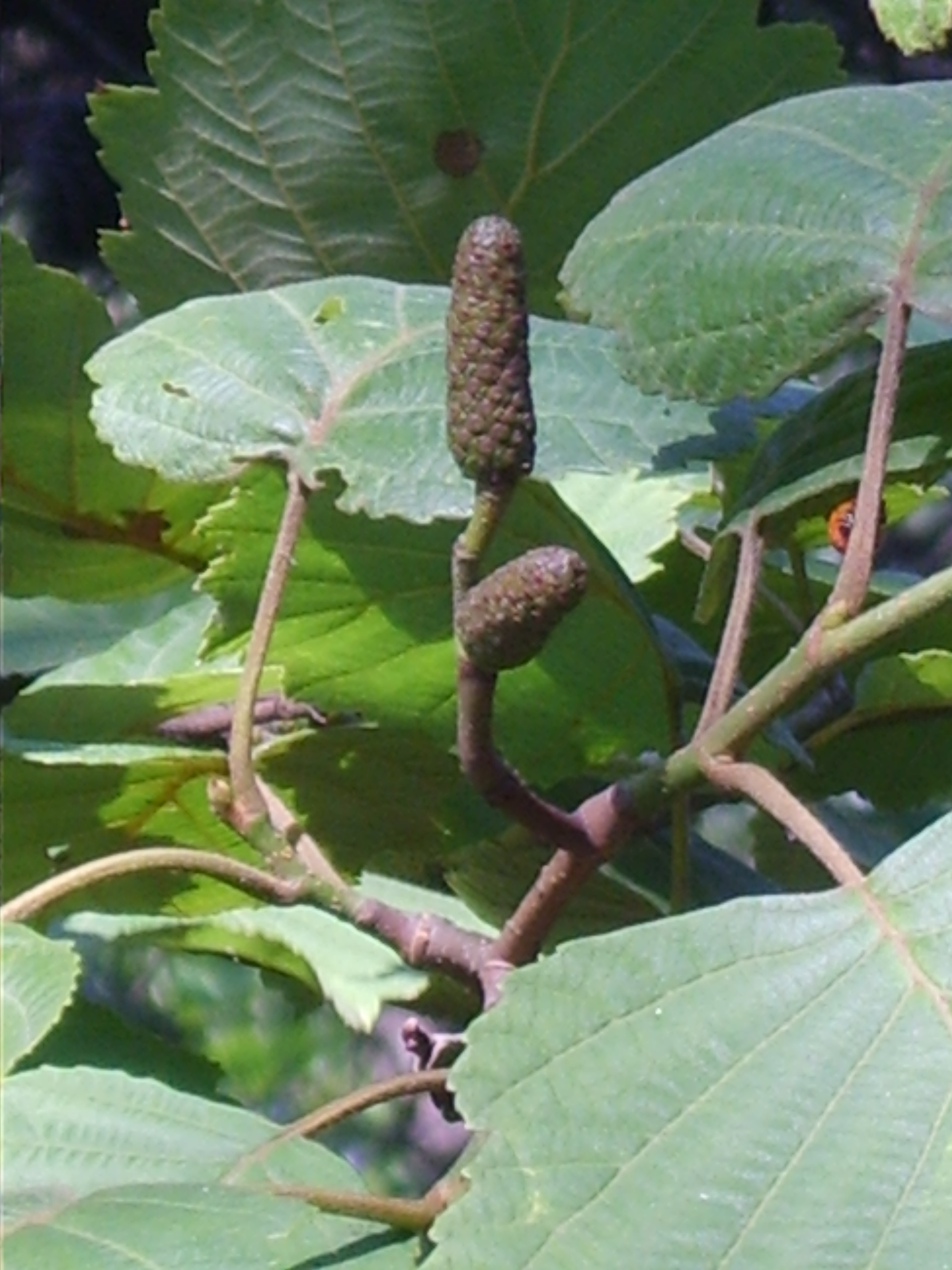 Alnus sibirica